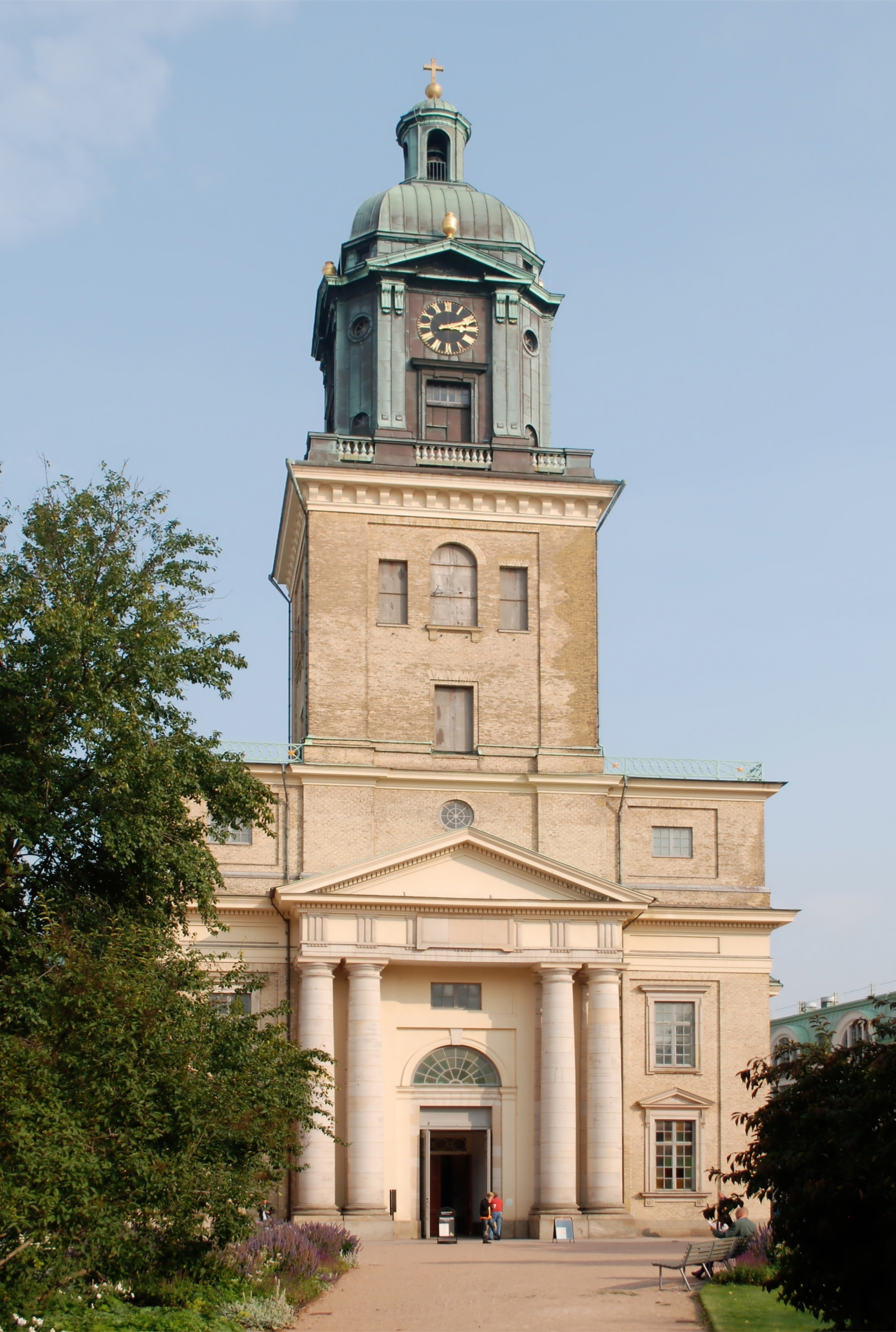 Göteborgs domkyrka (Gothenburg Cathedral).